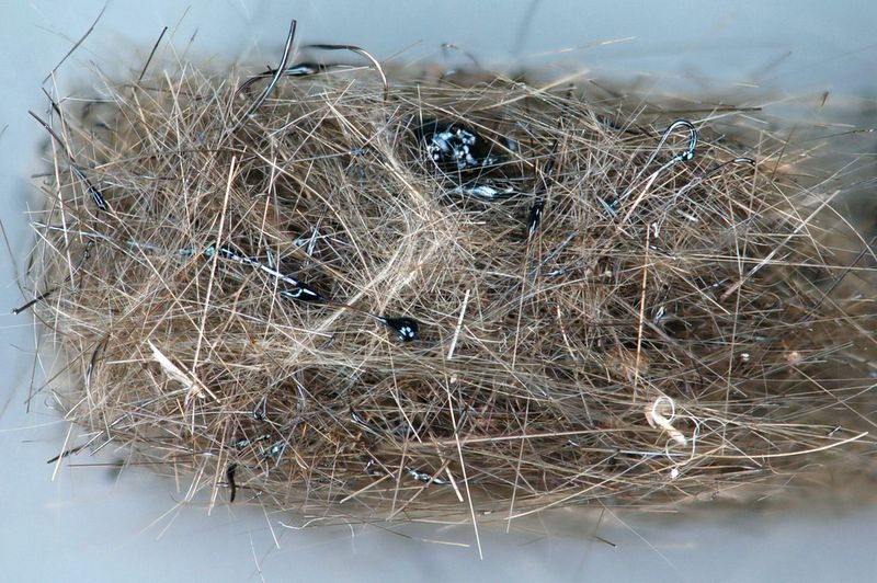 Pele’s Hair and Pele’s Tears (dark blobs). (Photo credit: James St. John)